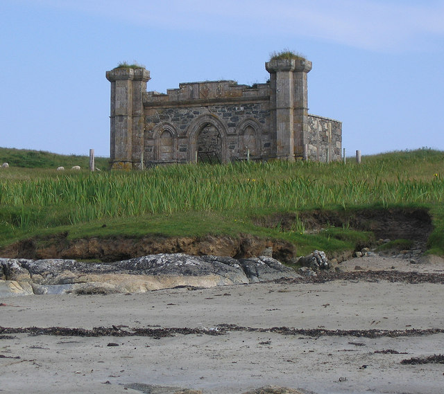 MacLean's Tomb Burial ground of the MacLeans of Coll